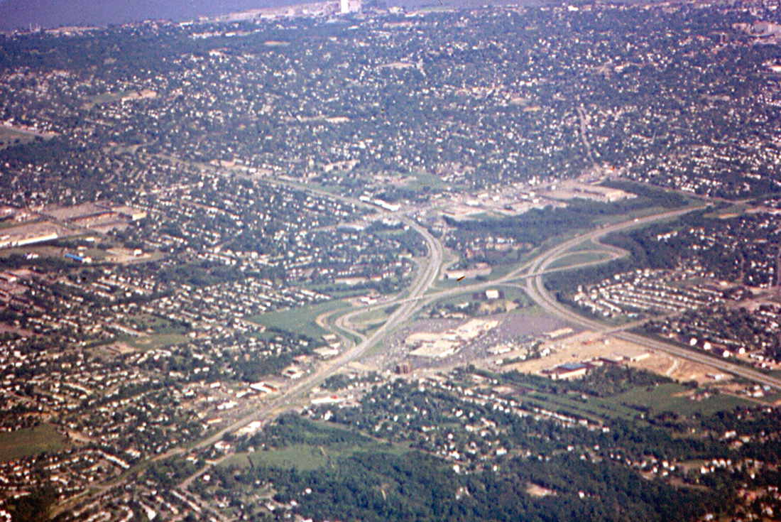 Northwest Peoria from an airplane leaving Peoria. The Illinois River is at the top of the photo. Interstate Highway I-74 curves in and out of the photo at the right, and War Memorial Drive (U.S. highway 150) goes through the scene. Northwoods Mall, the largest shopping center in Peoria, is in the center of the photo. I can trace part of my route home from Caterpillar. I came from downtown on I-74, got off at the exit and took the ramp to War Memorial Drive. I crossed Glen Avenue, and turned into Sherwood Forest at Sherwood Place, a short street at the lower left hand corner of the photo.